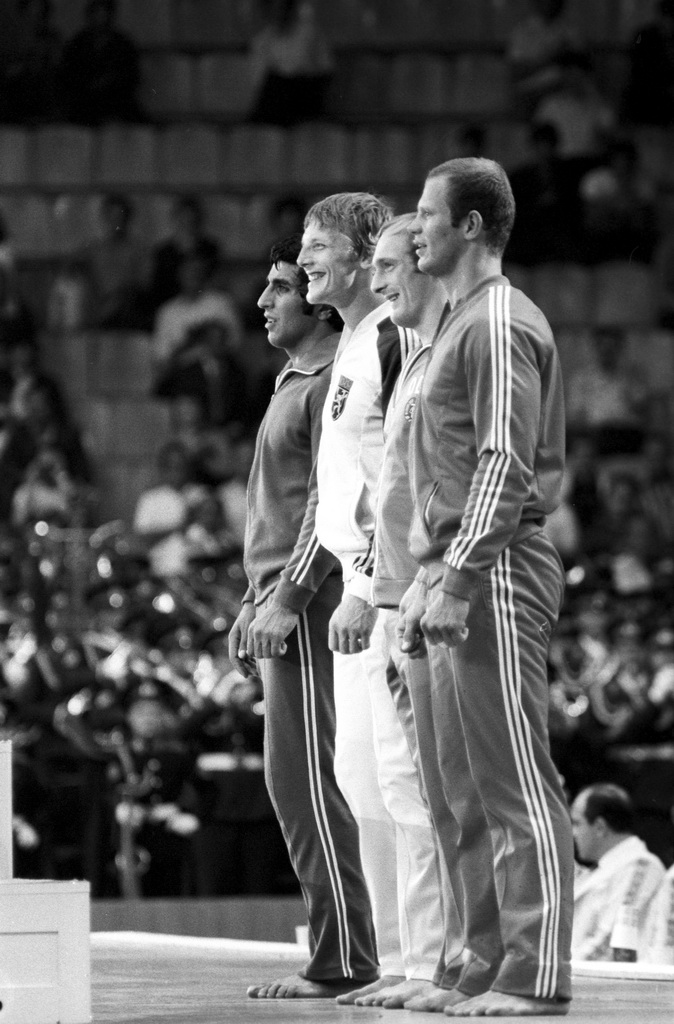 “Award ceremony for judo at 1980 Olympics”. Before the award ceremony of the winning judoka in half-heavyweight (95kg). XXII Olympic Summer Games (July 19-August 3).